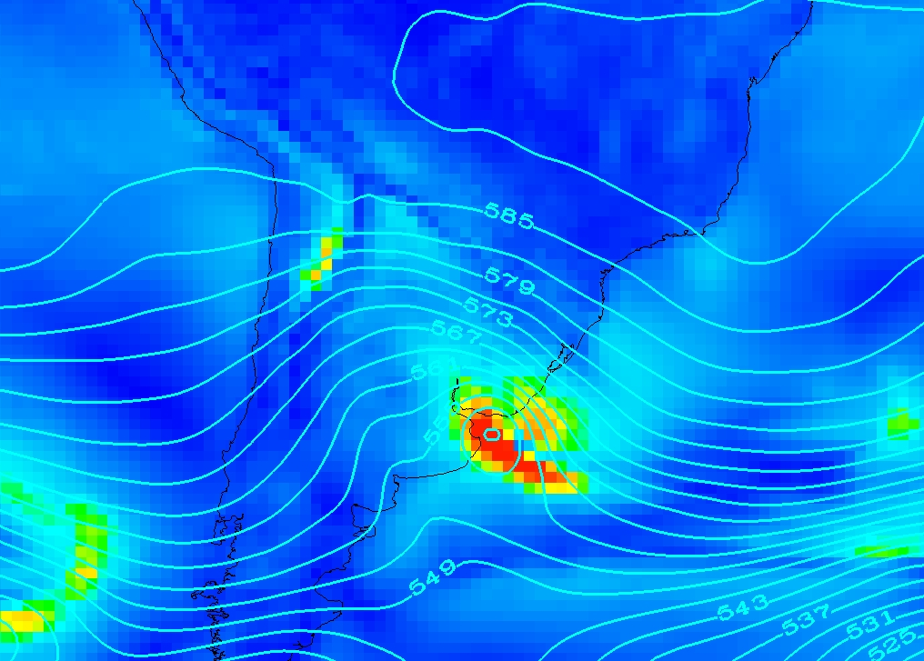 Wind gust over Uruguay on the 24th of August 2005 at 00Z